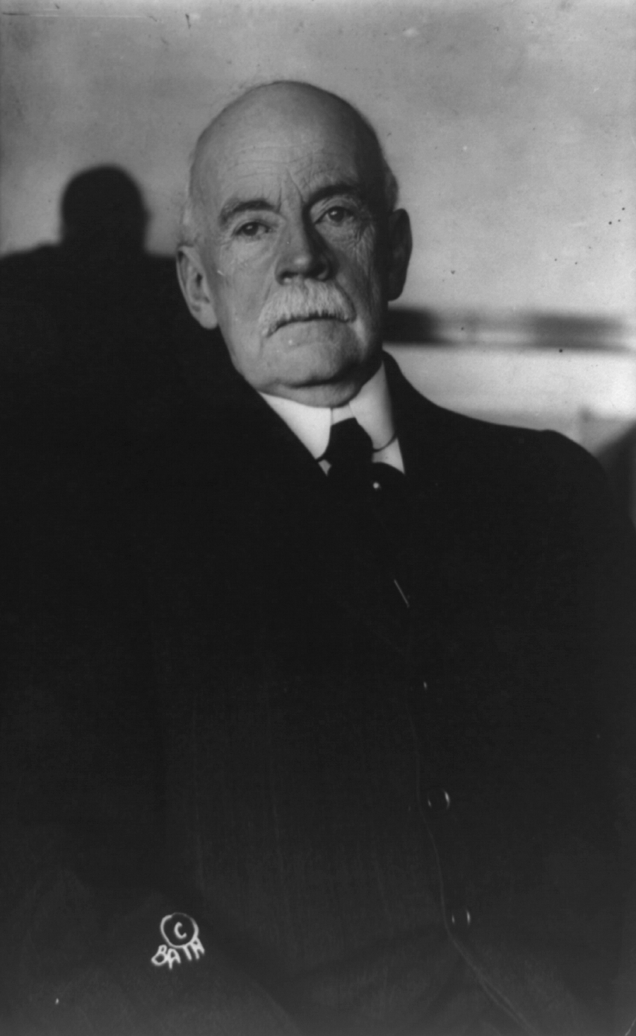 Charles H. Duell, half-length portrait, facing front]